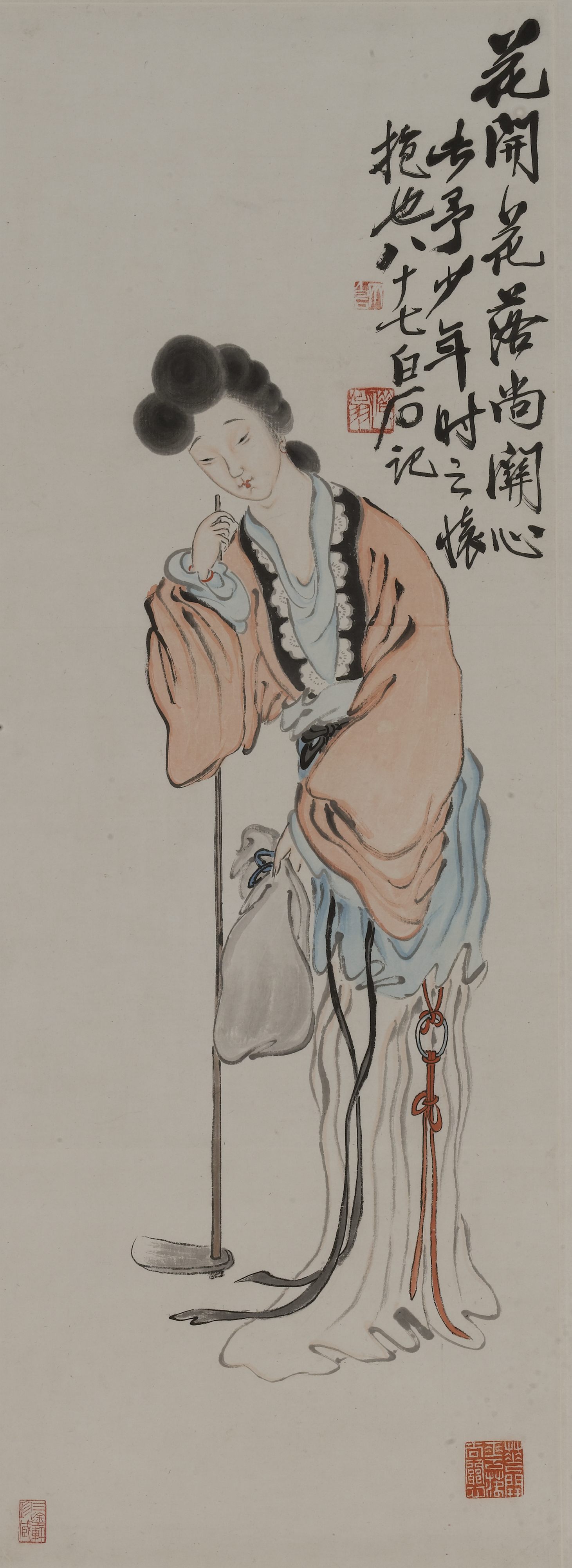 The subject of this portrait is Lin Daiyu, a character from the 18th-century novel Dream of the Red Chamber. In the painting, Daiyu takes a hoe to dig a pit for the bag of flowers she holds.